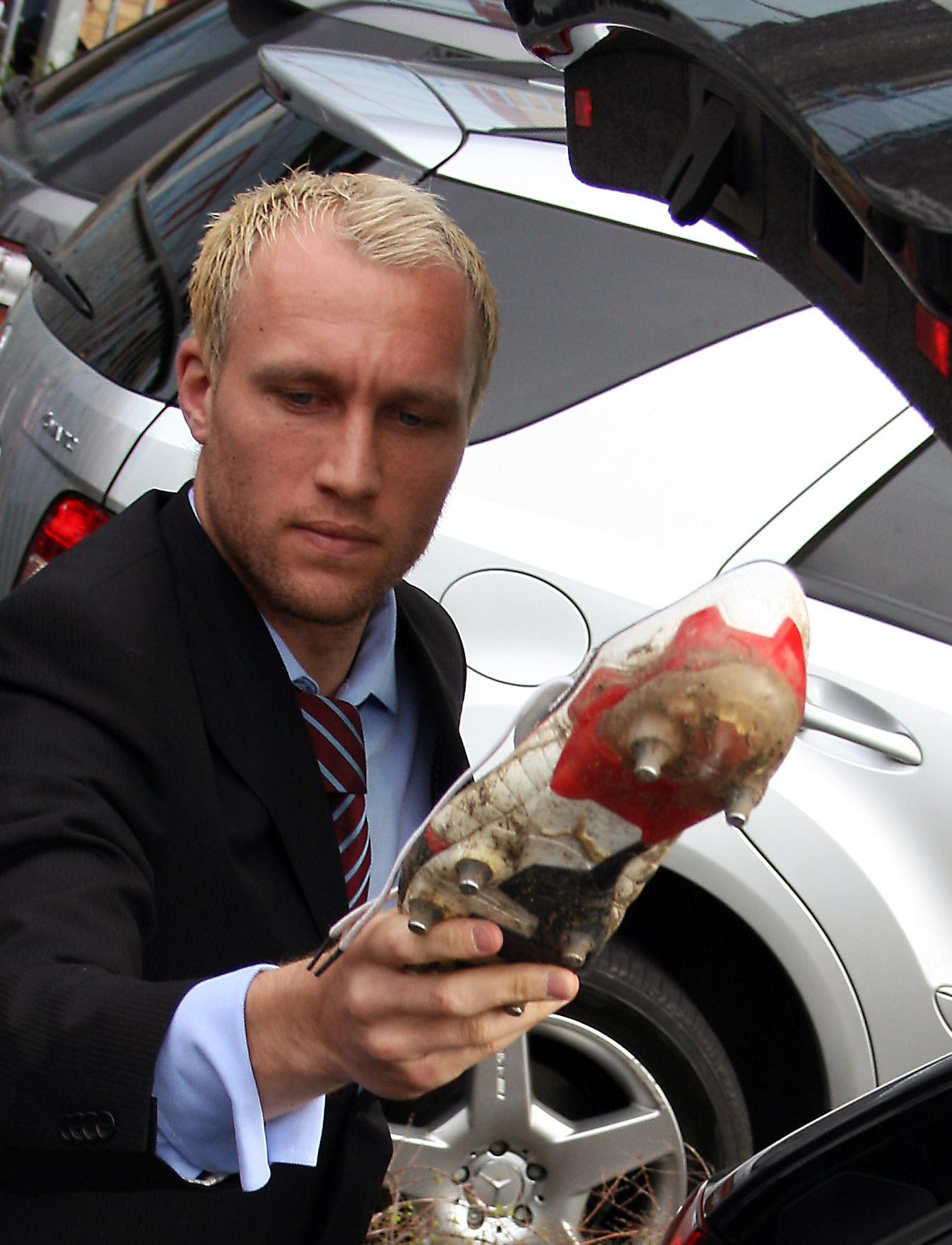 English footballer Dean Ashton taken on March 15, 2008